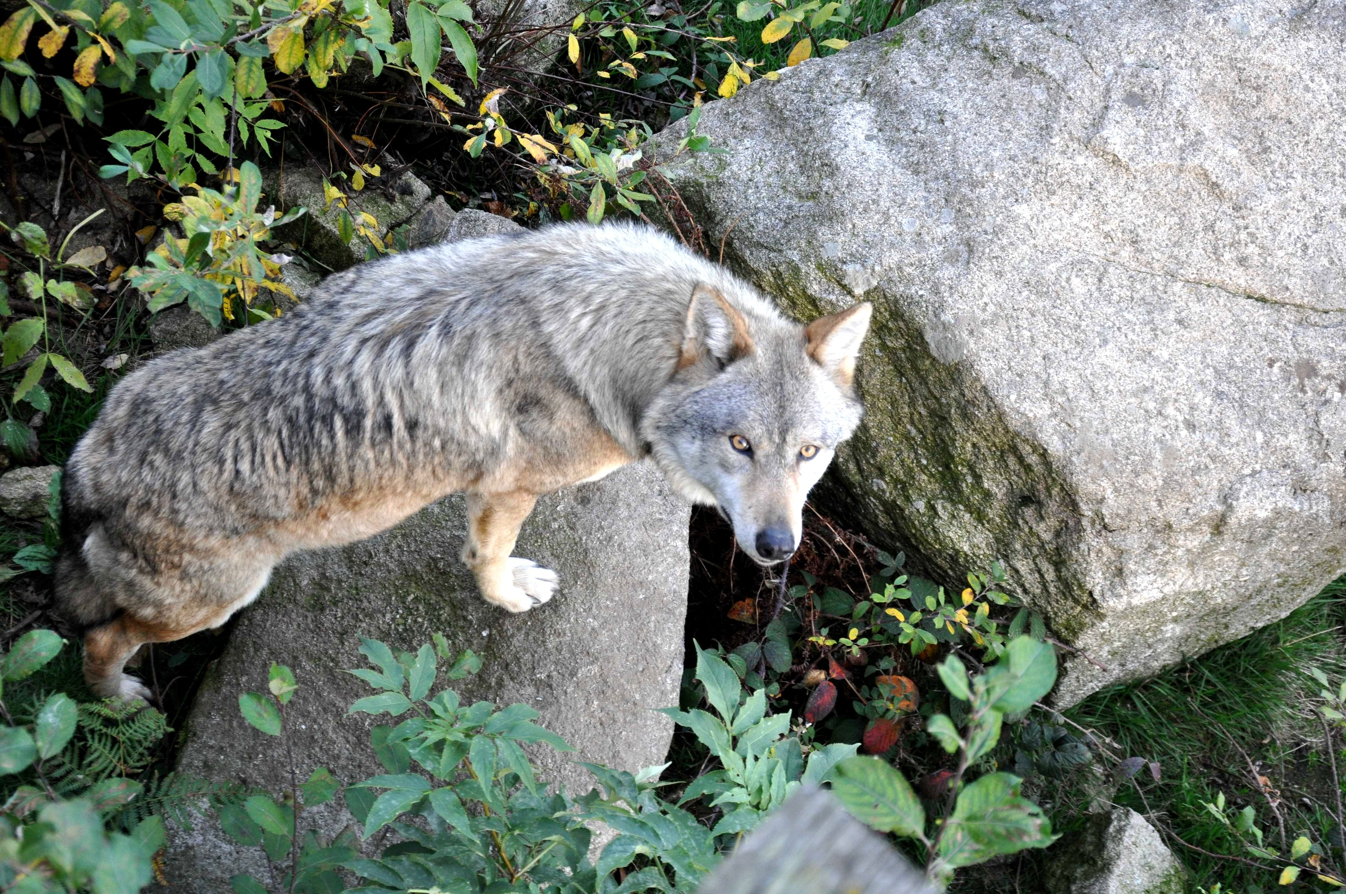 The European grey wolf in the Animal Park of the Monts de Gueret The Wolves of Chabrières.